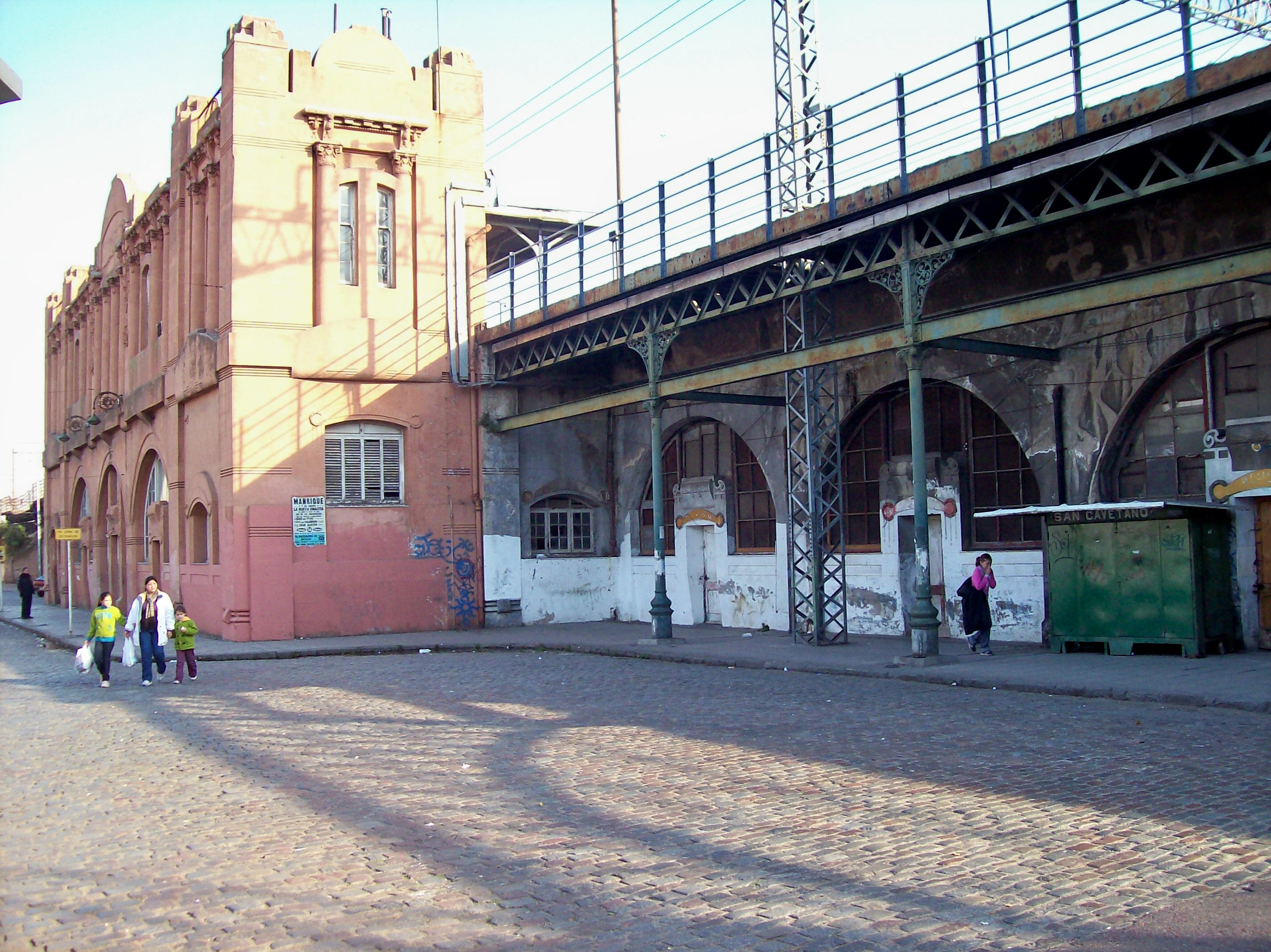 Hipólito Yrigoyen Station, along the former Roca rail line, in the Barracas section of Buenos Aires, Argentina. The location, known as Pasaje Darquier, featured prominently in Fernando Solanas' 1988 political drama Sur.